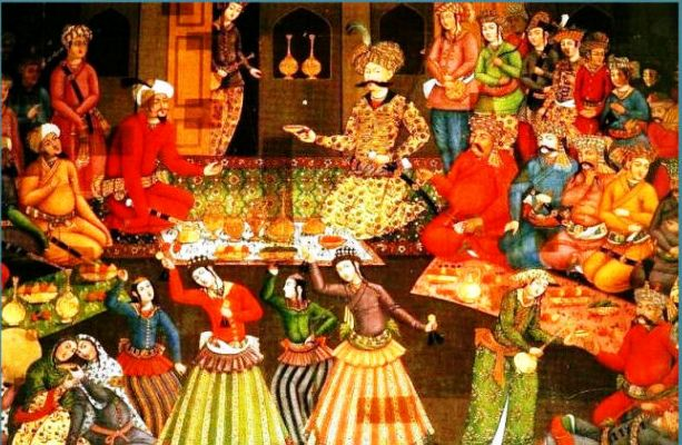 NOWRUZ Shah-AbbasI&Vali ofBukhara Ch.SE.Isfahan1657